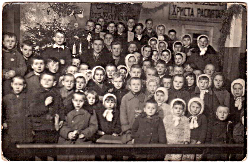 Baptist church in Pruzhany.